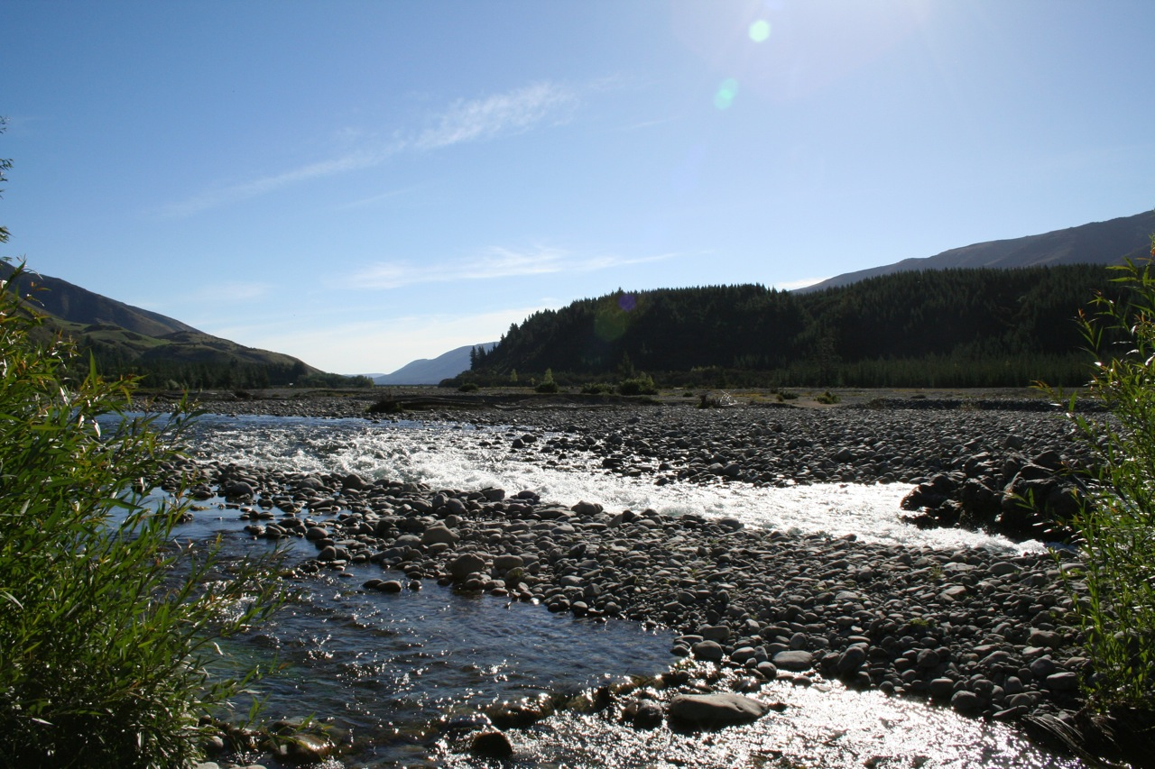 Kowhai Point, Wairau Valley (rt 63 between Blenheim and Nelson Lakes).